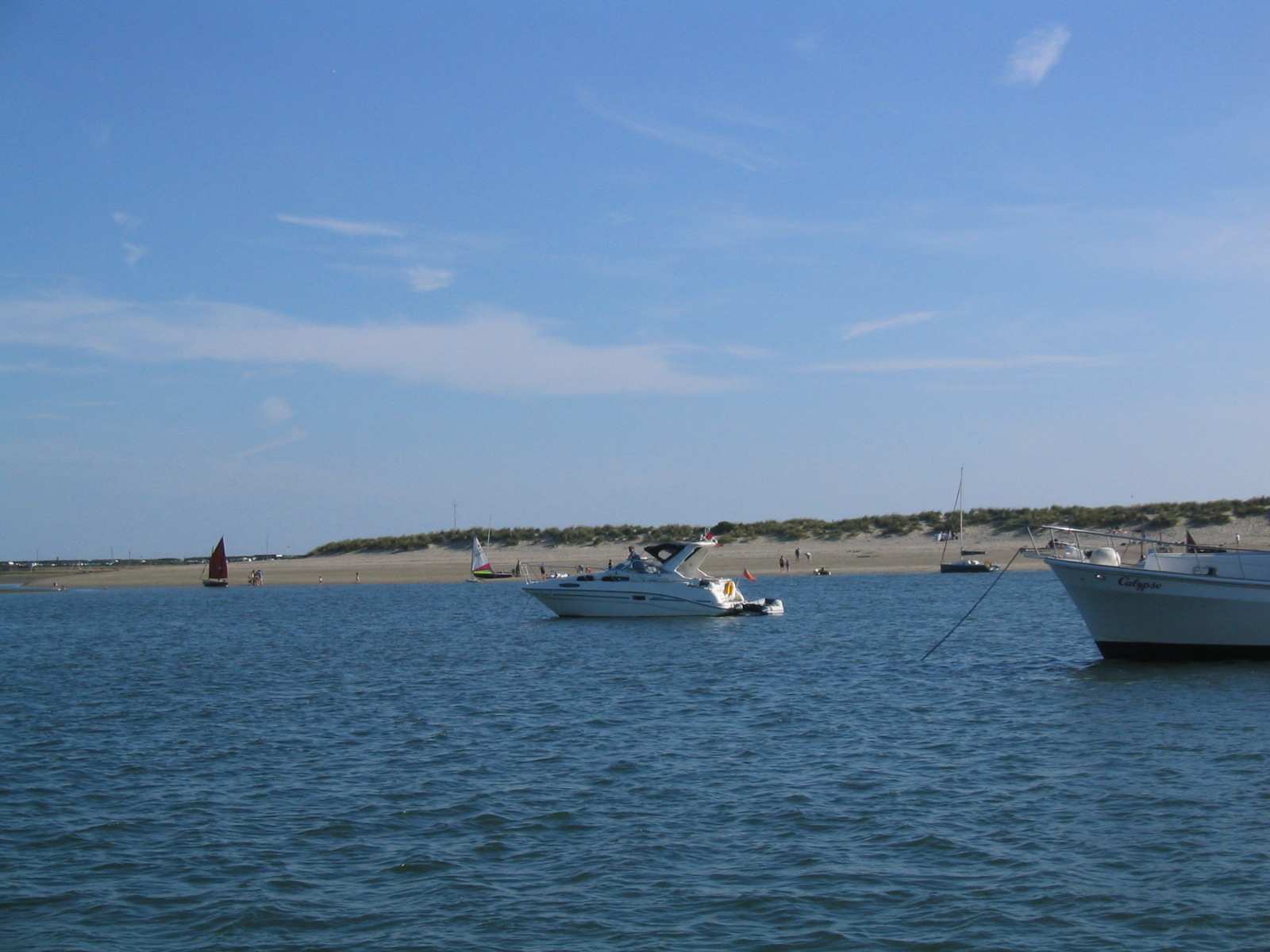 Various boats anchored off East Head in Chichester Harbour, looking towards West Wittering|, Sussex, UK. Photo taken by Alan Ford| 2005-06-19. Category:Images of boats Summary Various boats anchored off East Head in Chichester Harbour, looking towards West Wittering, Sussex, UK. Photo taken by Alan Ford 2005-06-19.